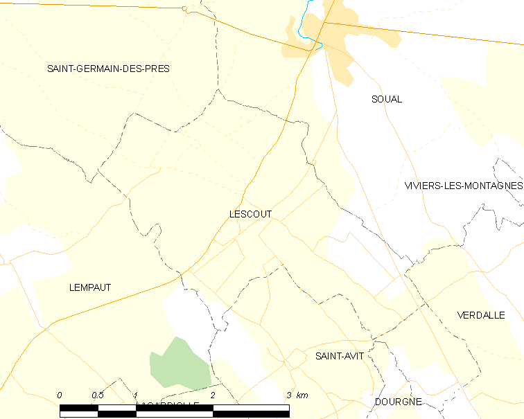 Map of French municipality Lescout